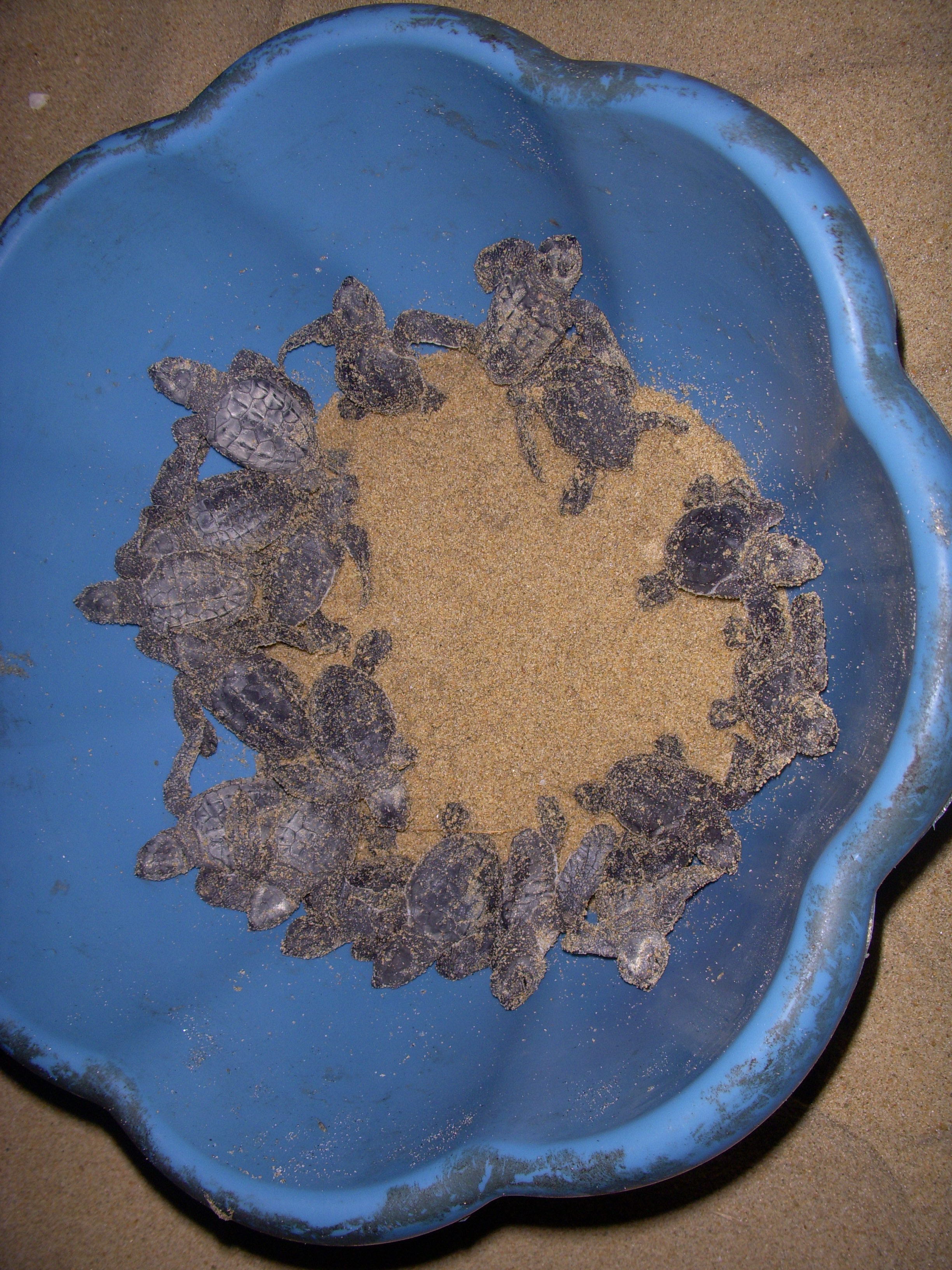 Olive Ridley sea turtle (Lepidochelys Olivacea) that nest in the Coromandel coast every year for centuries over generations in a mass nesting act called arribada are increasingly threatened by human activities. A group of volunteers ( in this instance) undertake a daunting routine of night walks collecting eggs, hatching them, and releasing them into the sea safely every day of the nesting season for decades now.